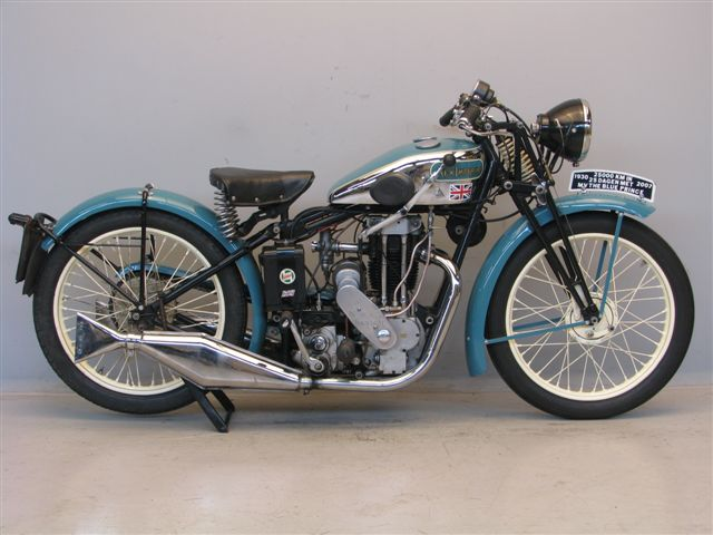 New Imperial B10 350 cc OHV motorcycle "Blue Prince" from 1930